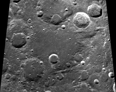 Clementine image: Poczobutt at centre, with Cannizzaro at lower left (southwest), Omar Khayyam at left (west), and Smoluchowski at north (of Poczobutt itself).